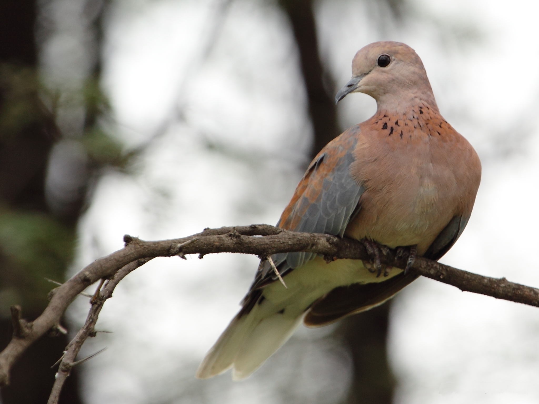 A Laughing Dove at Gaborone Game Reserve, Botswana.